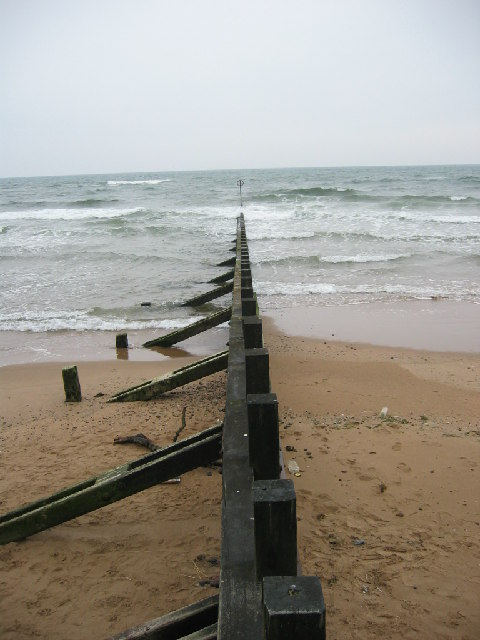 Groyne, Aberdeen beach This section of beach has many groynes to prevent the movement of material along the coastline by longshore drift.